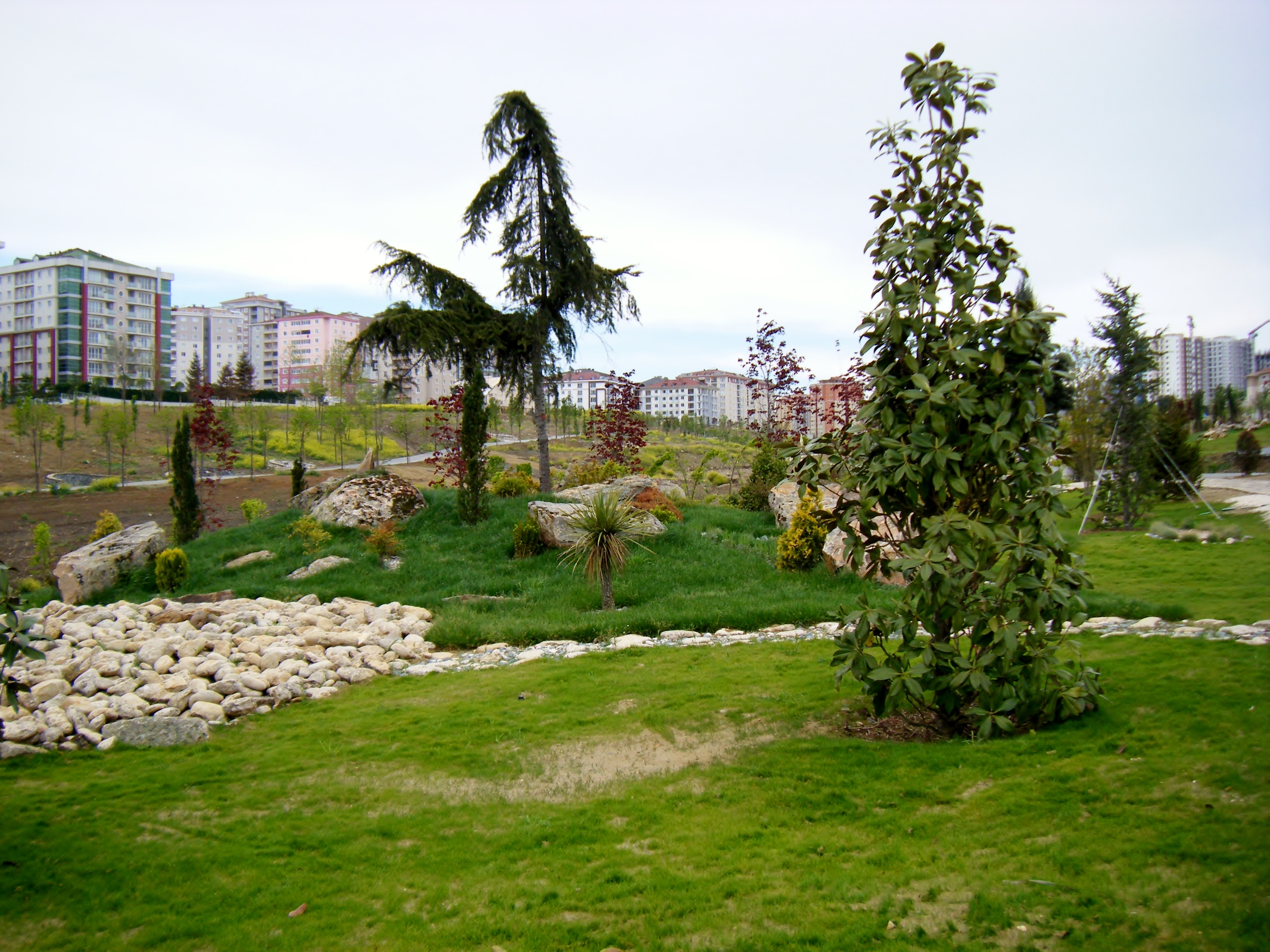 Beylikduzu Green Valley Botanical City Park. Beylikduzu district of Istanbul. Istanbul green spaces, regions, areas. Beylikduzu urbanisation planned, well, organized, organised.